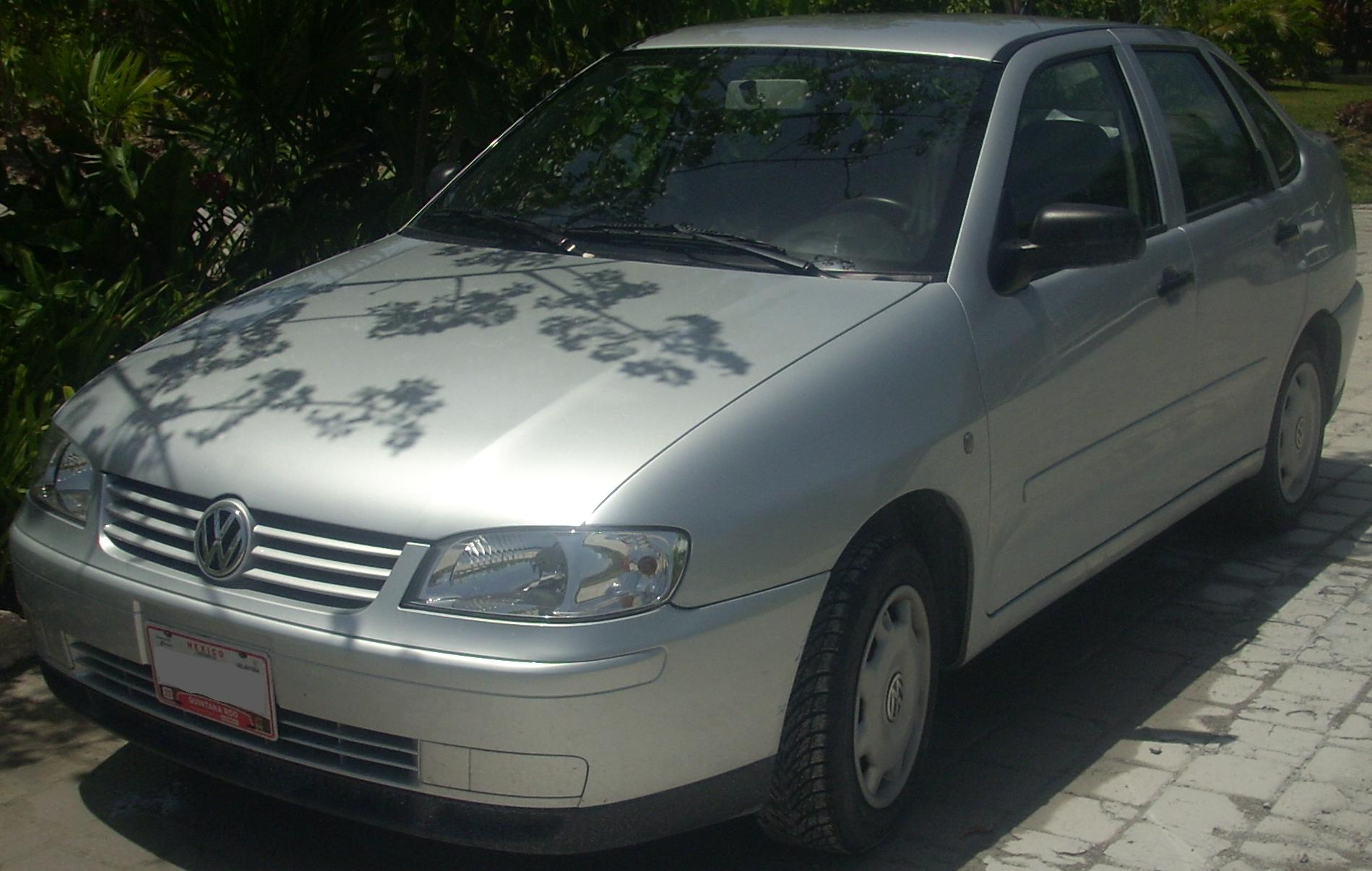 Volkswagen Derby photographed in Cancun, Quintana Roo, Mexico